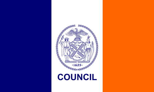 The Councilmanic Flag of the City of New York, created by adding the public-domain seal to a tricolor flag.